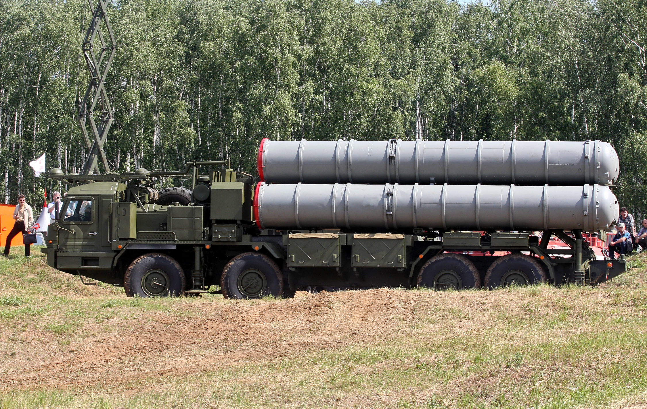 The self-propelled launch vehicle 5P90S on a BAZ-6909-022 chassis for the S-400 system.